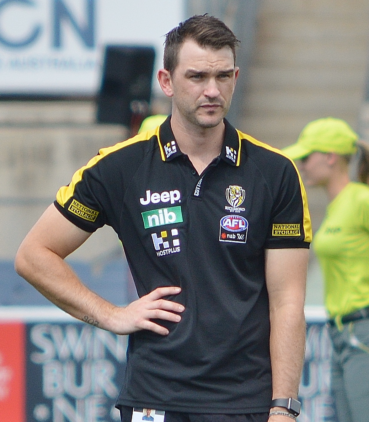 Tom Hunter with Richmond during the round 3, 2020 AFL Women's match against North Melbourne at Ikon Park.